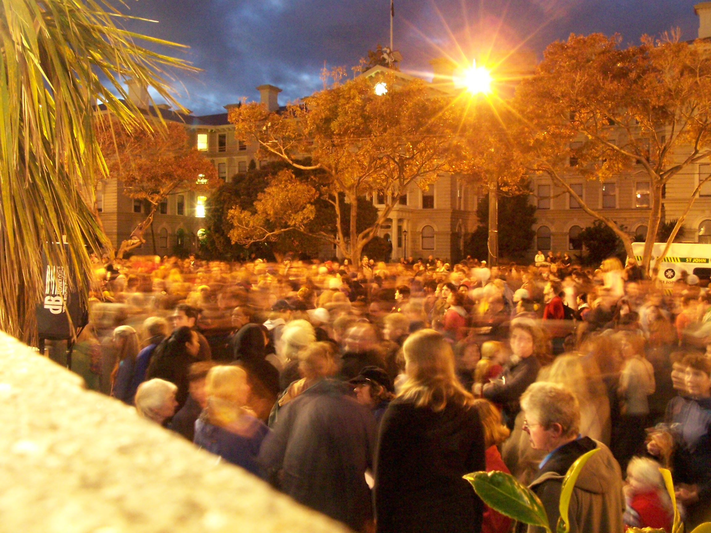 Crowds at the conclusion of the 2007 Wellington ANZAC Day Dawn Service.